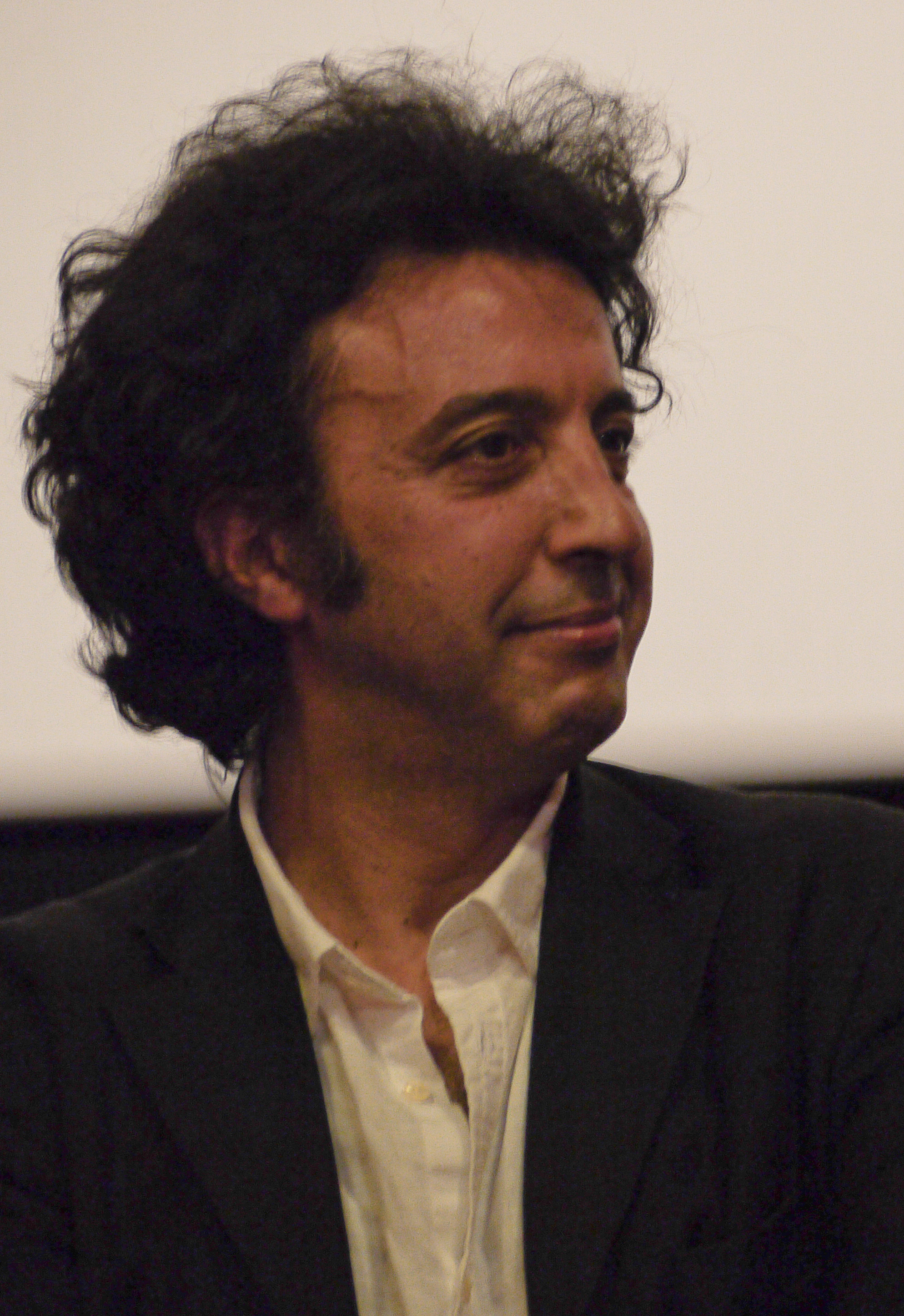 Ismaël Ferroukhi Festival Paris Cinéma 2011.